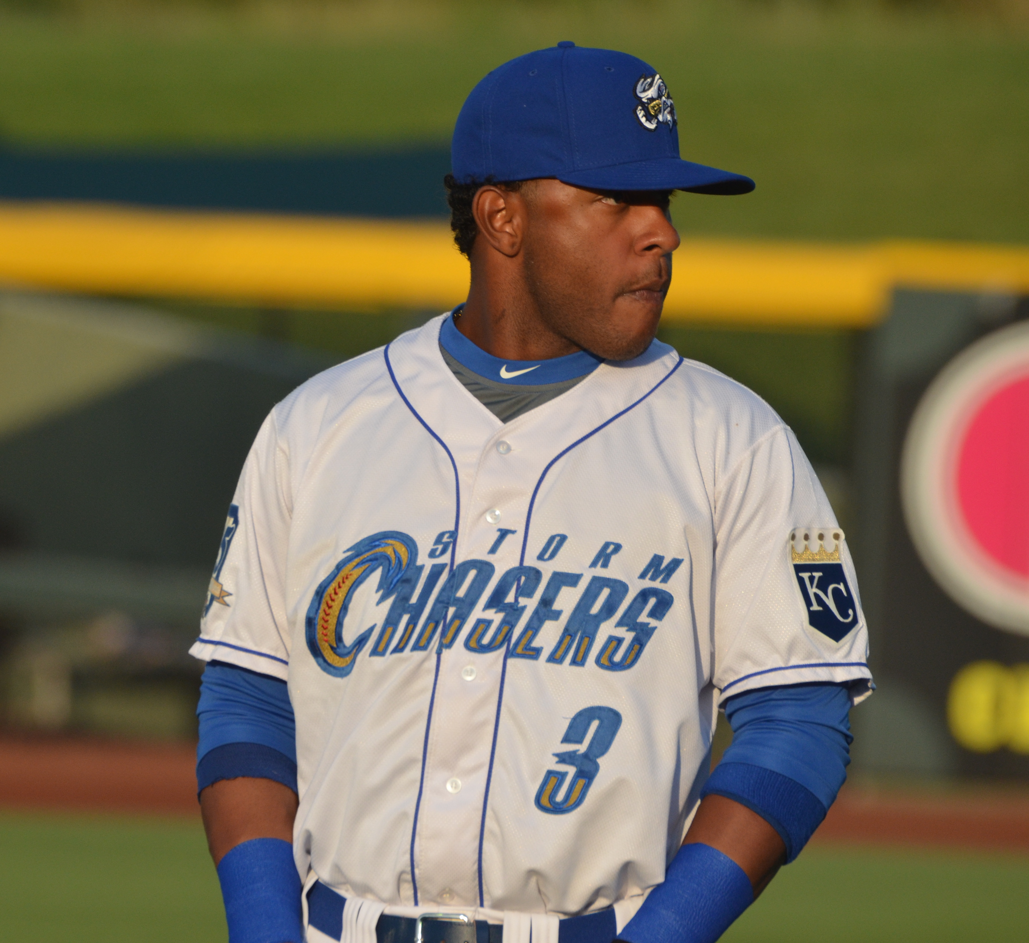 Rey Navarro of the Omaha Storm Chasers before a game at Werner Park in Omaha in 2013.